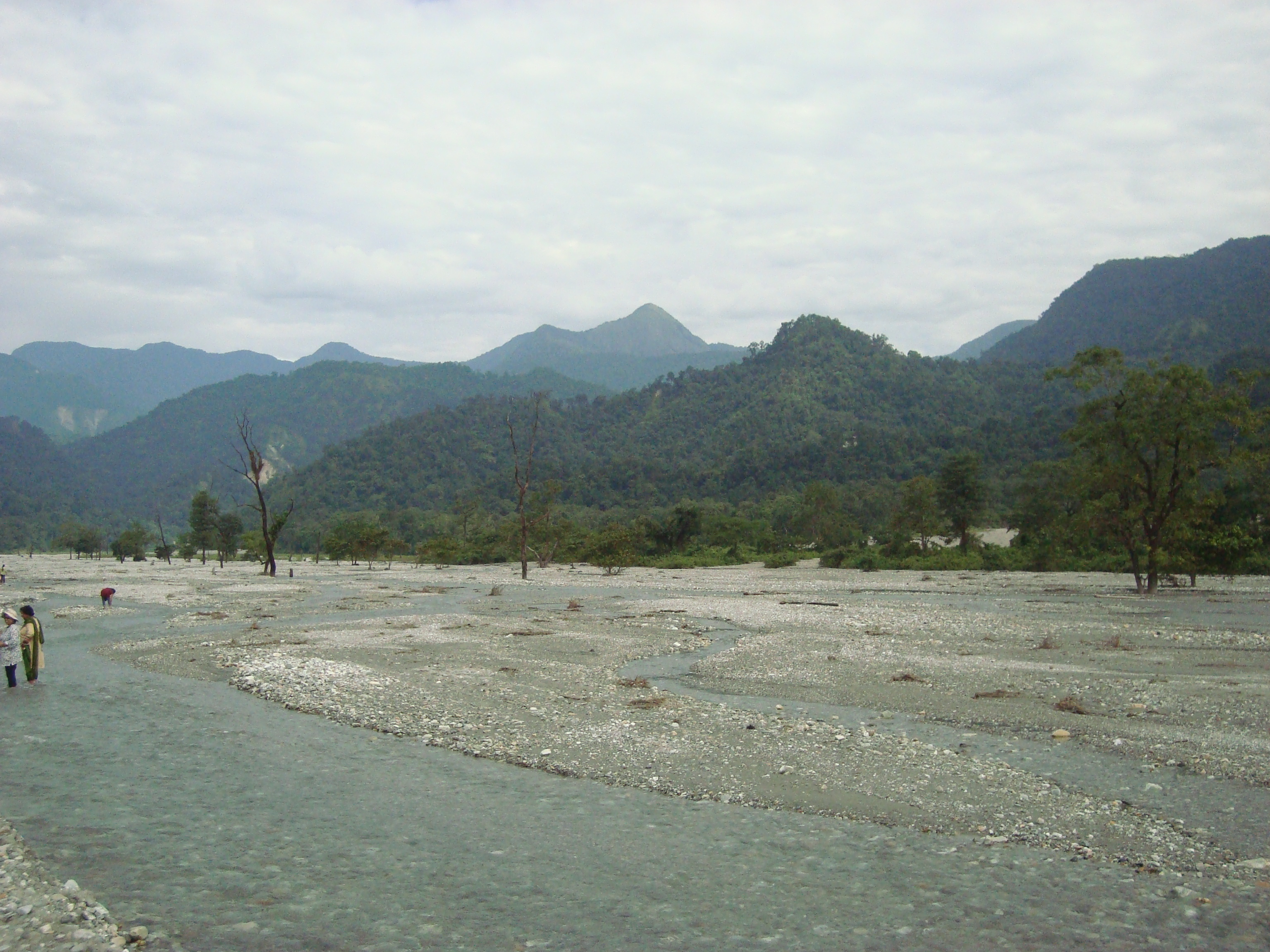 Jayanti river with Bhutan Hills in background at Buxa Tiger Reserve.